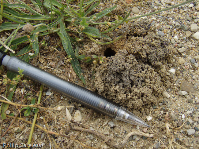 The entrance to a C. fumipennis nest. Image from photo by P. Careless